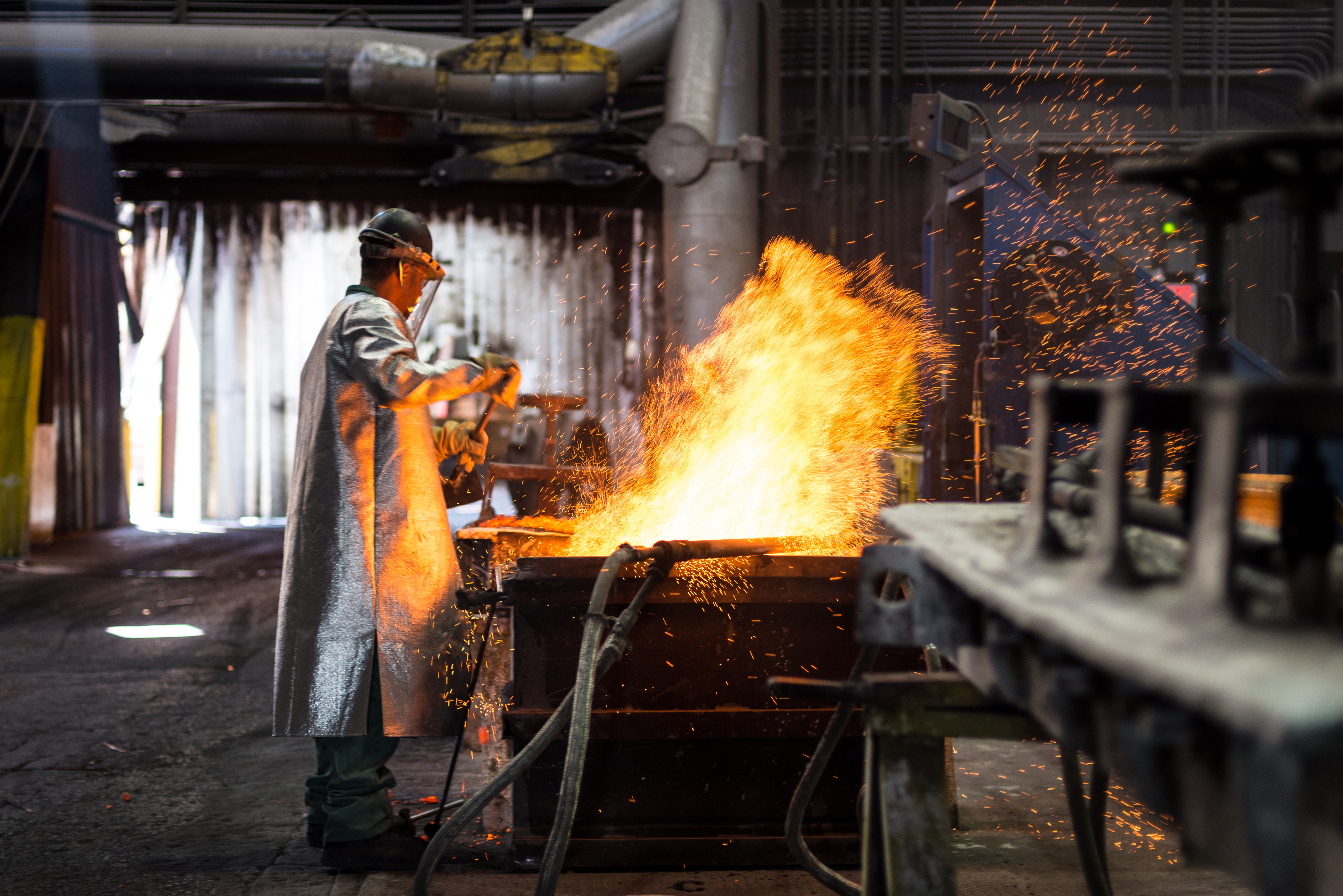 Metal worker at Hussey Copper in Leetsdale, PA melts down copper on August 8, 2015